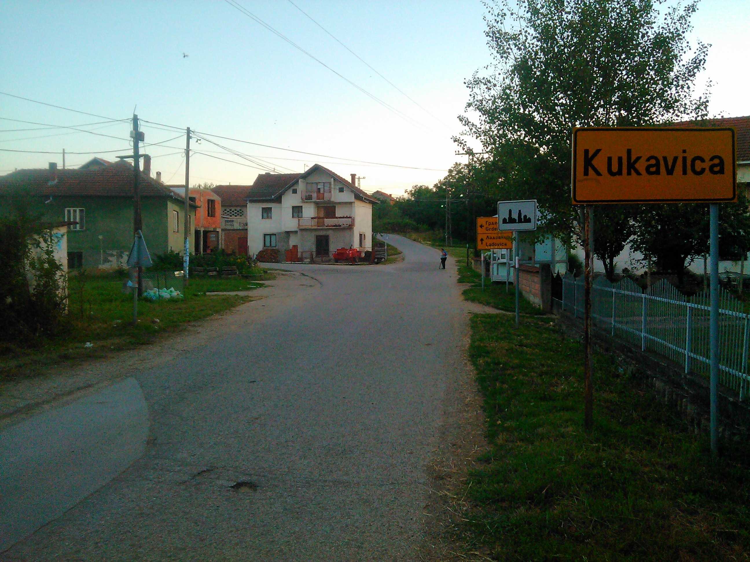 Selo Kukavica 1